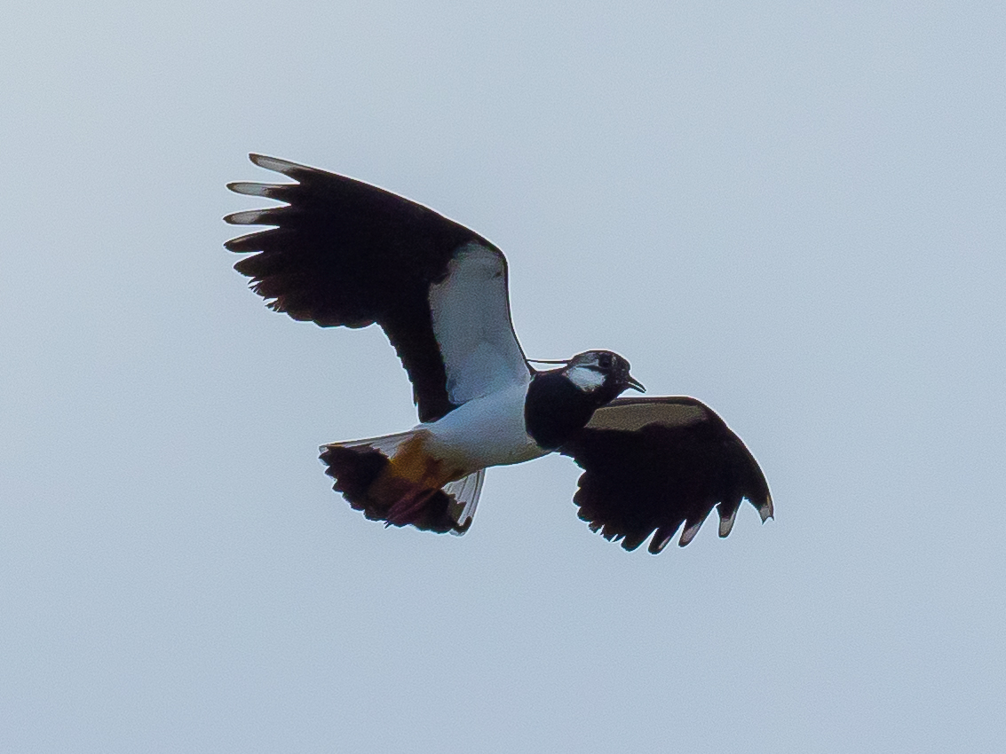 Tofsvipa, Northern lapwing, Vanellus vanellus, around Vaxholm, Sweden